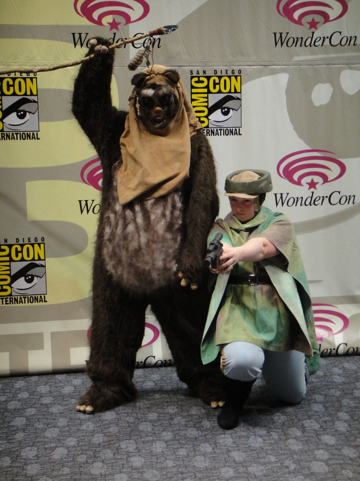 WonderCon 2011 Masquerade - Wicket and Princess Leia